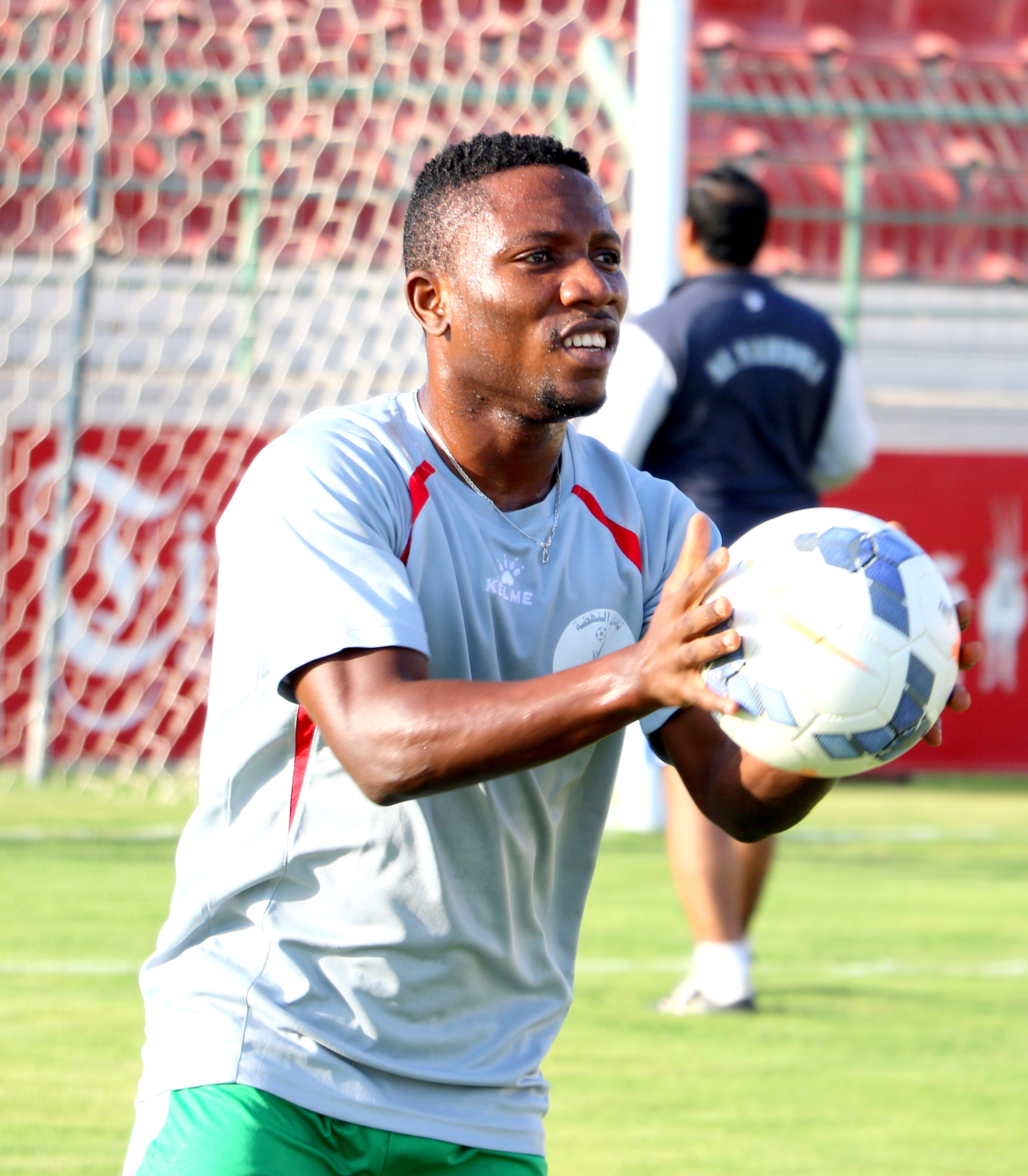 Daniel Odafin with Al Nahda Club training before a match against Dhofar Club. Al Saada Stadium 28 May 2015 Photographer email id